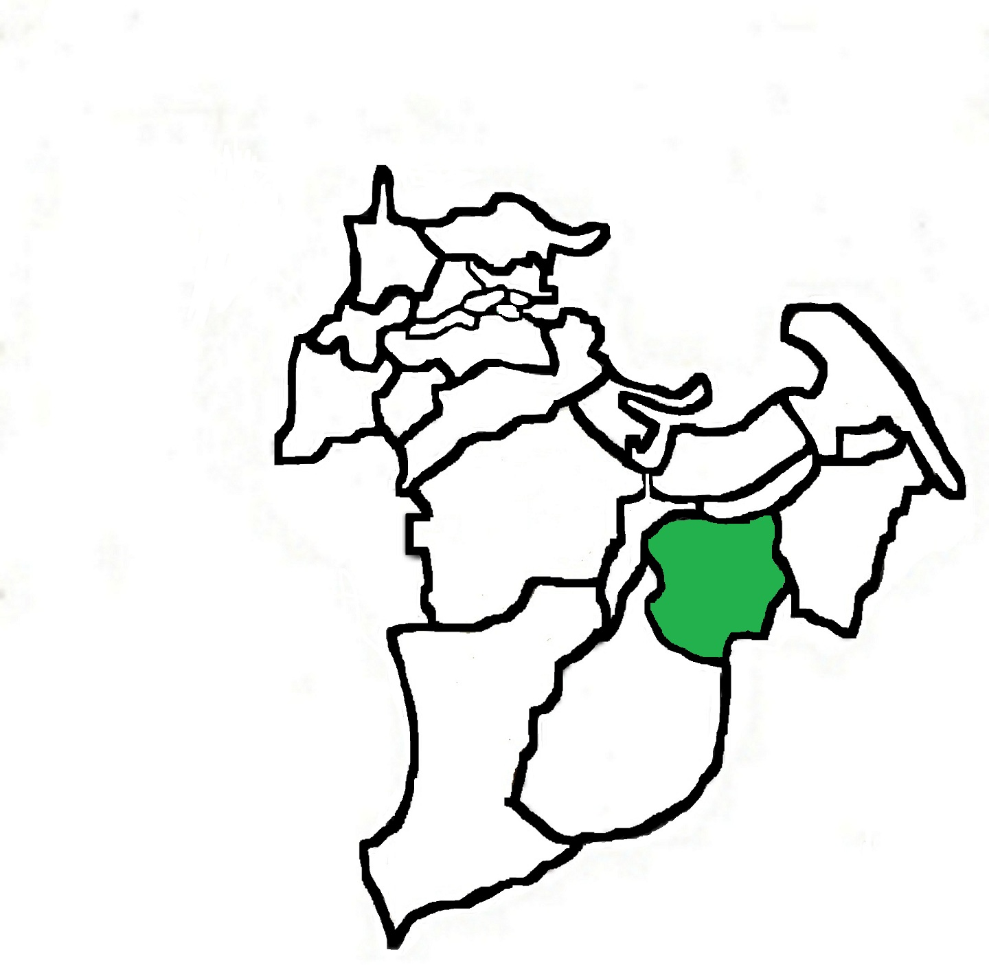 Ohayashitown Komatsushimacity Tokushimapref range